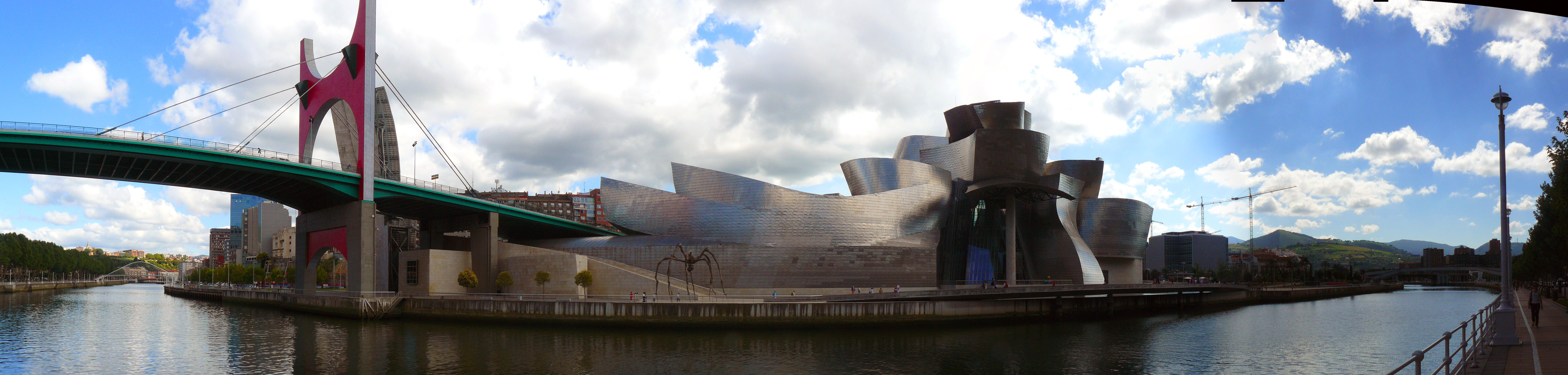 Panoramic view of the Guggenheim Museum Bilbao, Spain.